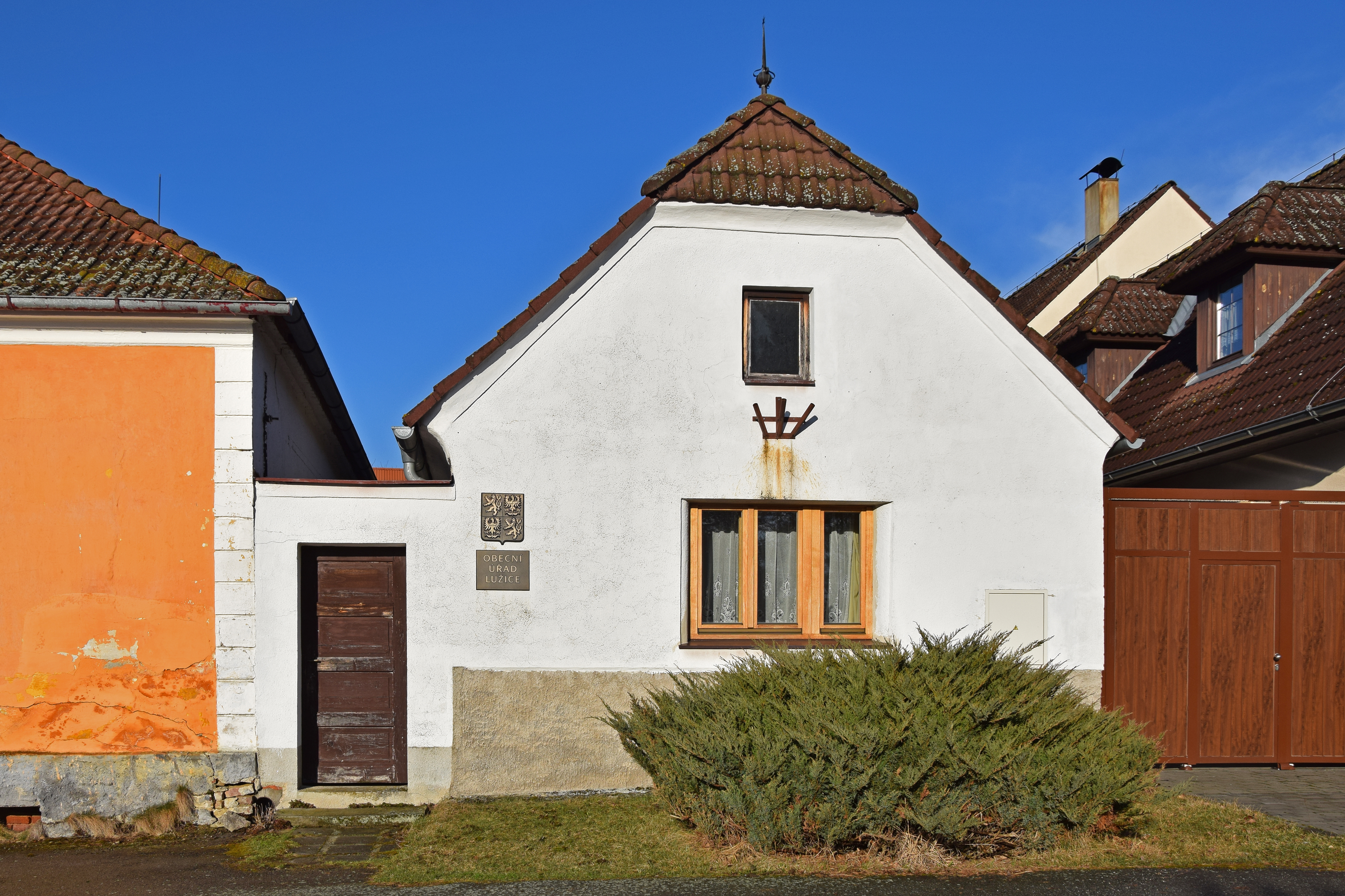 Village hall in Lužice, Prachatice District, Czech Republic.